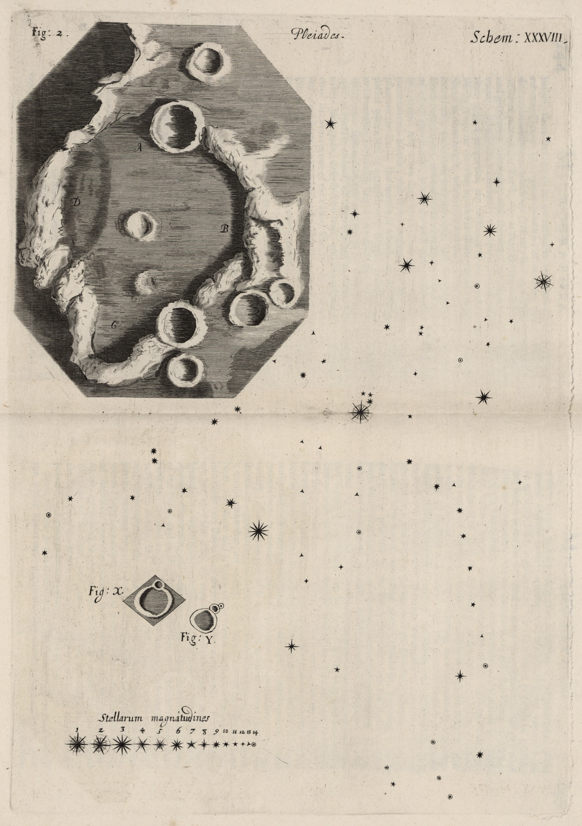 Schem. XXXVIII - Of the Moon